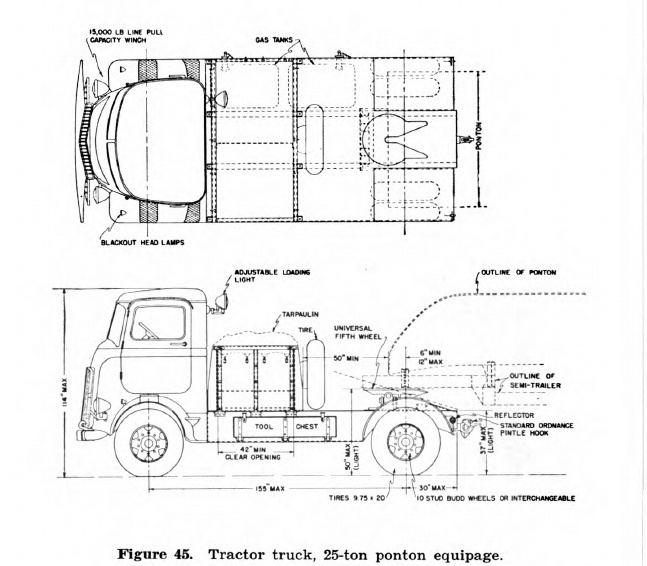 Mack NJU-1.5